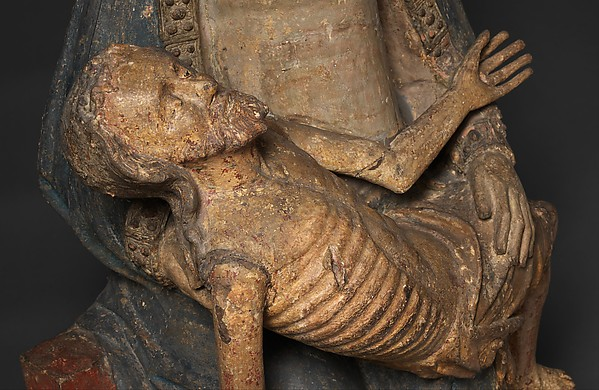 This file is made available under the Creative Commons CC0 1.0 Universal Public Domain Dedication.The person who associated a work with this deed has dedicated the work to the public domain by waiving all of his or her rights to the work worldwide under copyright law, including all related and neighboring rights, to the extent allowed by law. You can copy, modify, distribute and perform the work, even for commercial purposes, all without asking permission.